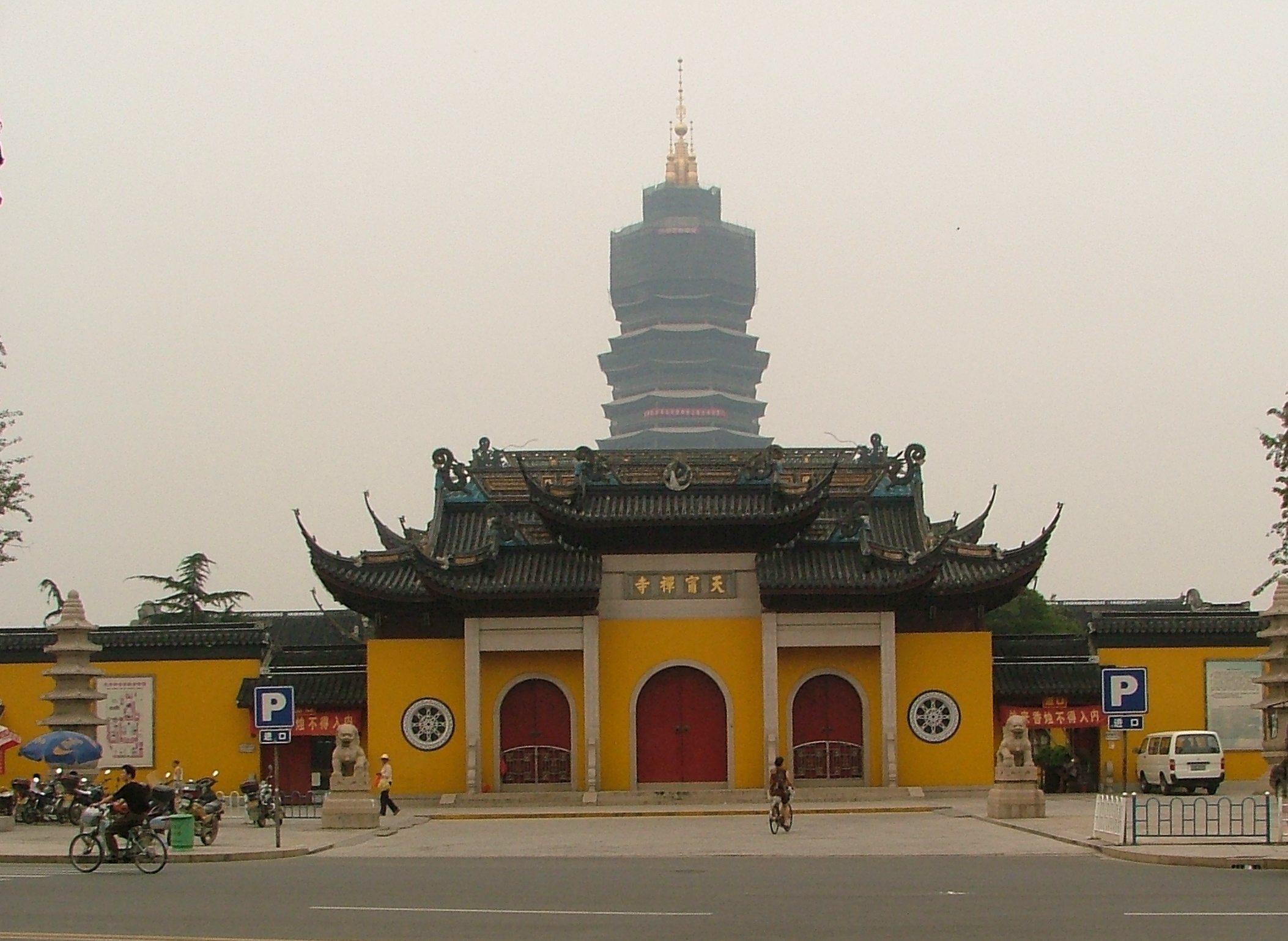 tianning temple changzhou